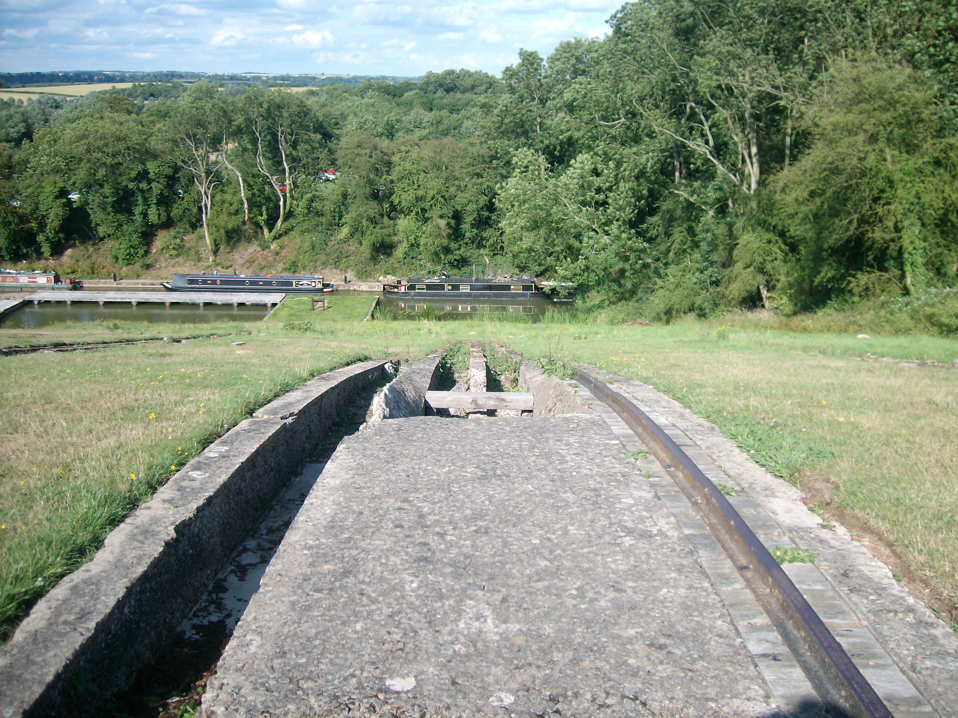 View from the top of the Foxton Inclined Plane